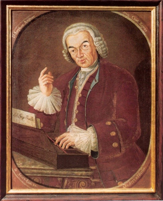 Stephan Angerer (*1711), teacher in St. Johann in Tirol, father of the composer Edmund Angerer